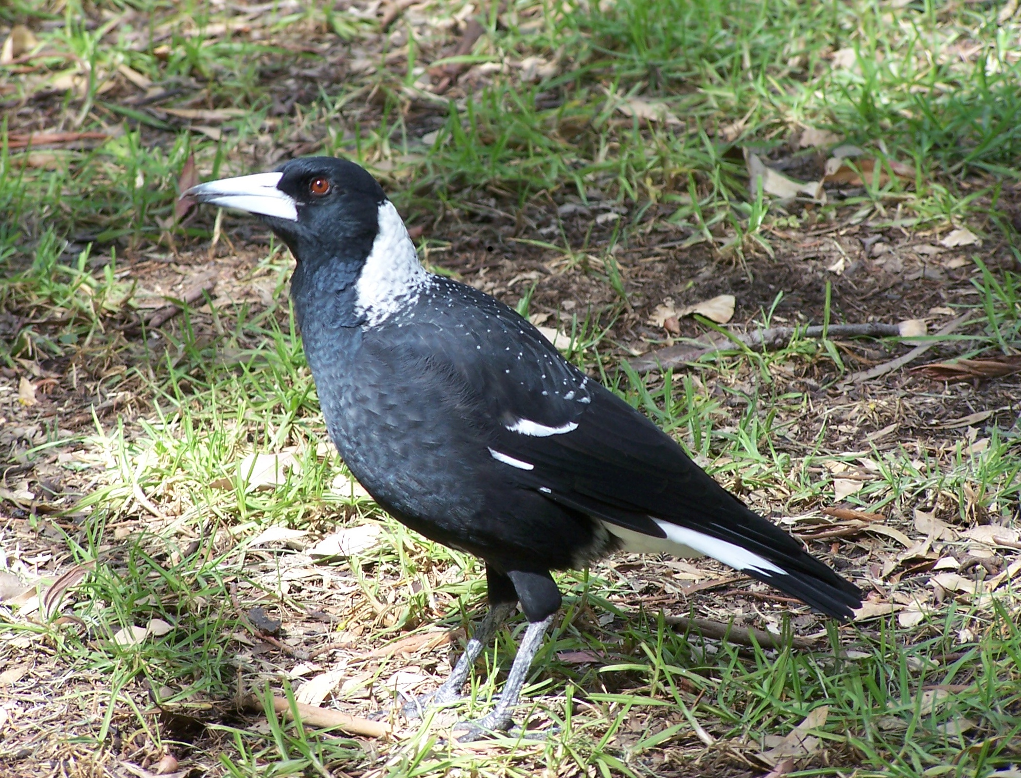 The Western Magpie (Gymnorhina tibicen dorsalis) found in the fertile south-west corner of Western Australia. This one was photographed near Perry Lakes, Western Australia.